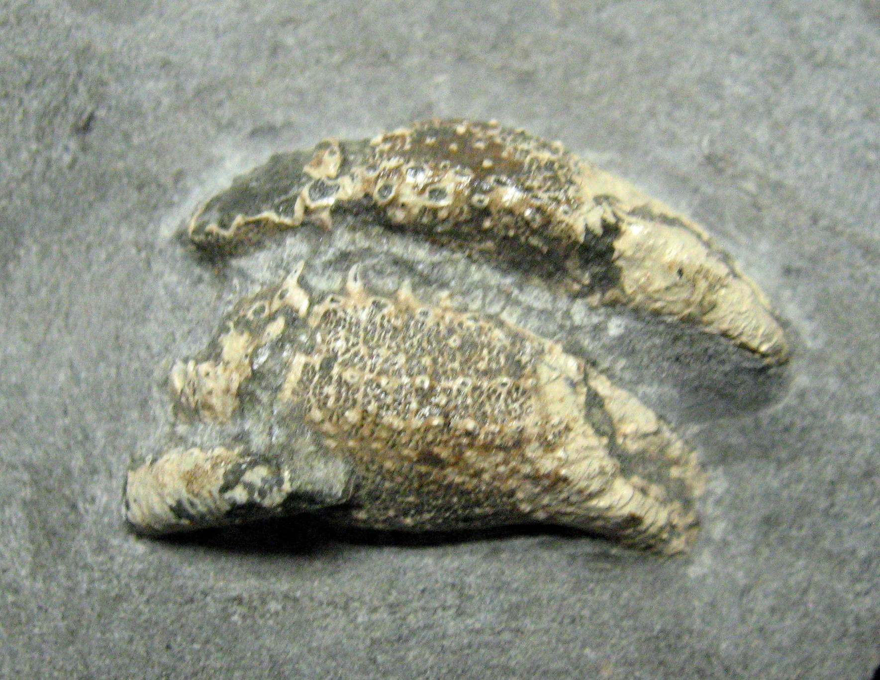 Fossil chelae from a Dardanus species hermit crab. Eocene, Hoko River Formation, Clallam County, Washington, USA. Stonerose Interpretive Center Gary Eichhorn crab collection #SR EC 07-01-17